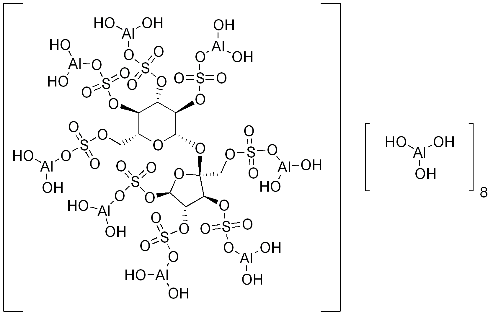 chemical structure of sucralfate